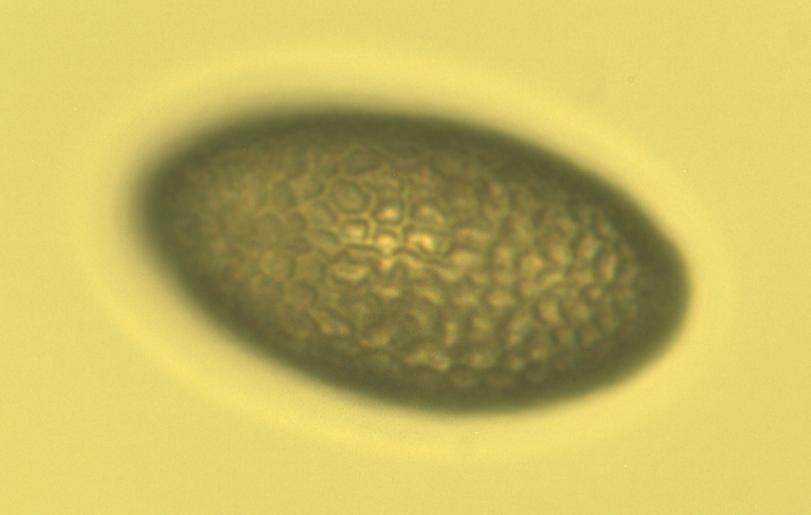 Brassica napus Pollen 400x